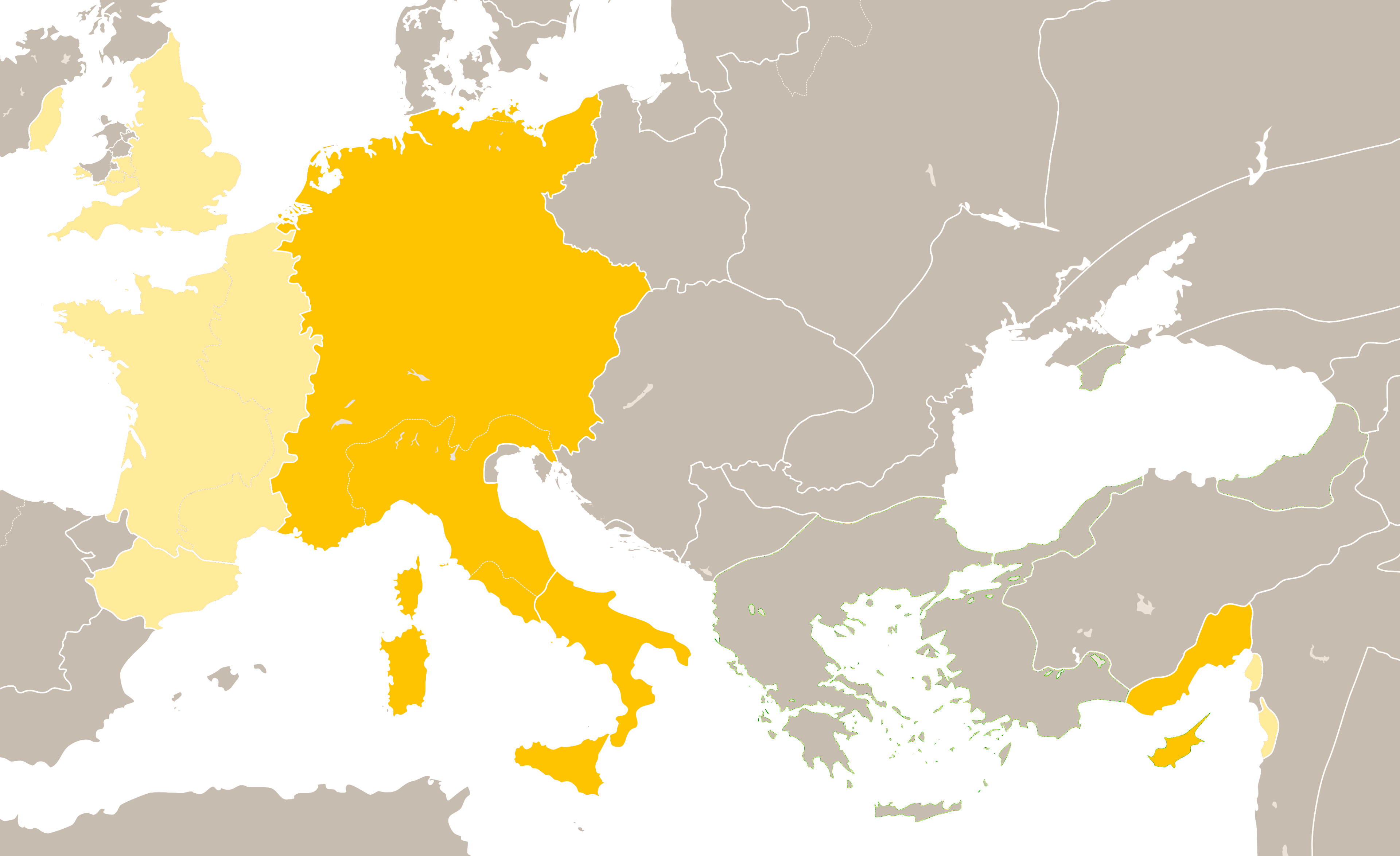 The Holy Roman Empire (dark yellow) and other states which recognized its suzerainty (lighter yellow) during the reign of Emperor Henry VI